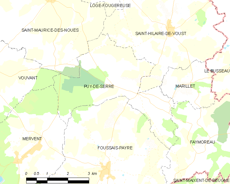 Map of French municipality Puy-de-Serre